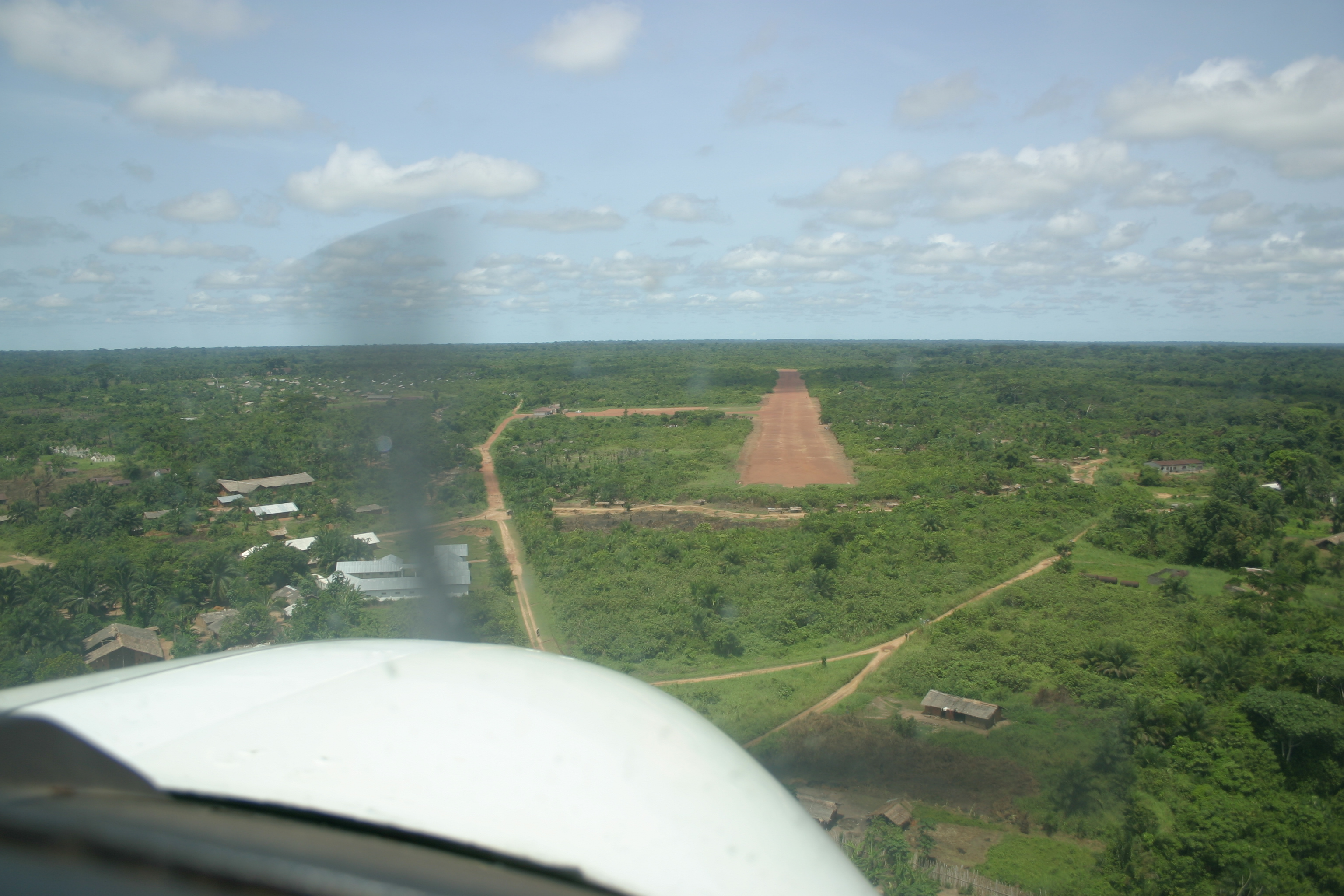 Coming in to land at Basankusu Airport.